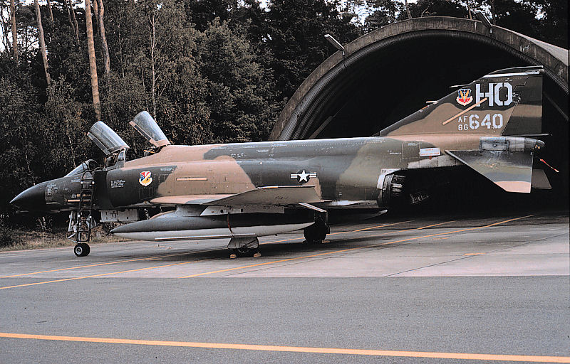 McDonnell F-4D-30-MC Phantom 66-7640 7th Tactical Fighter Squadron, 49th Tactical Fighter Wing, photo taken at Ramstein Air Base, West Germany 7640 (c/n 2215) to AMARC as FP413 Jan 8, 1990. To Fritz Enterprises Jul 29, 1998